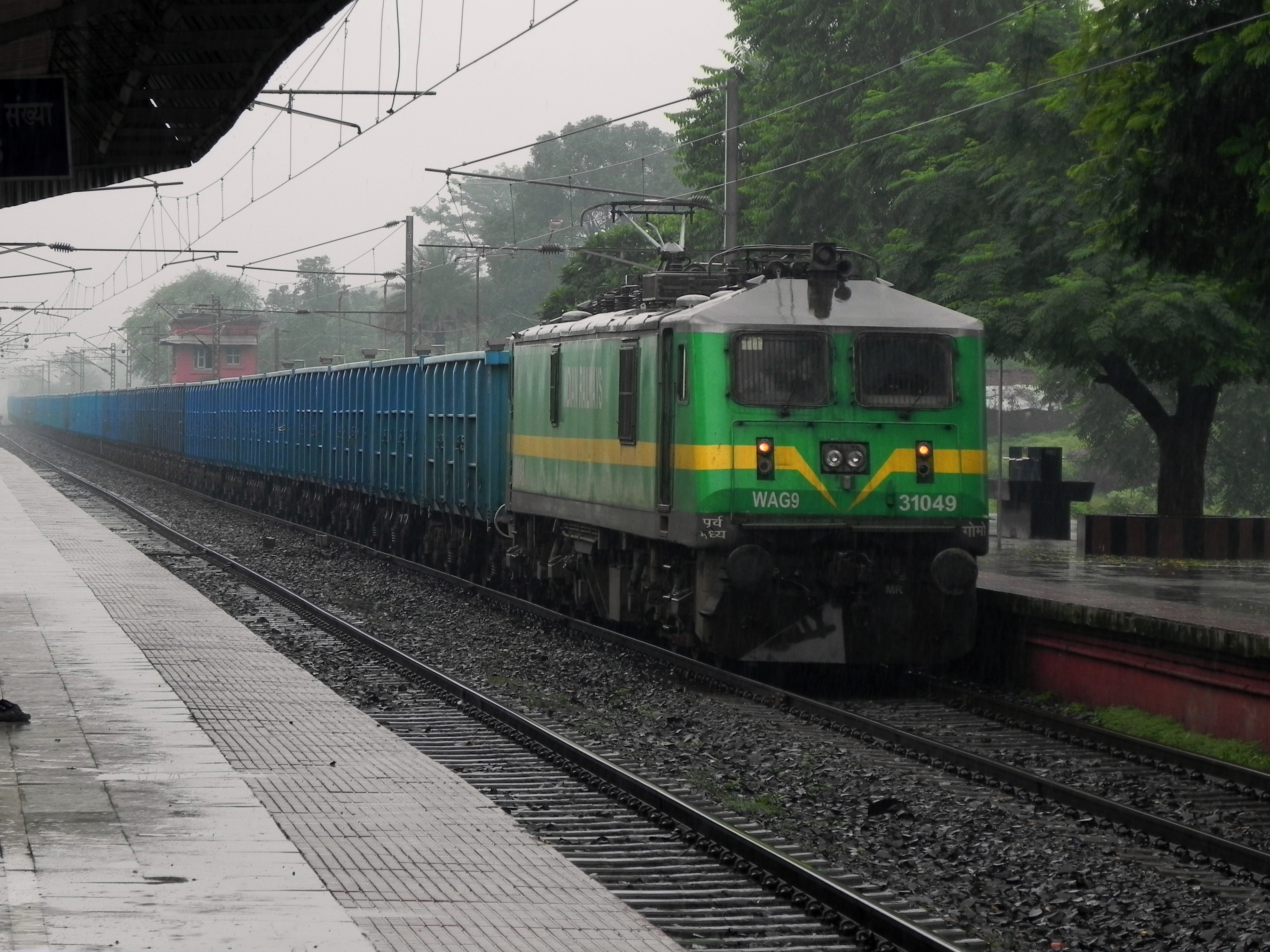 Gomoh based WAG-9 loco - 31049 with BOX - type freight rake at Isri, Jharkhand